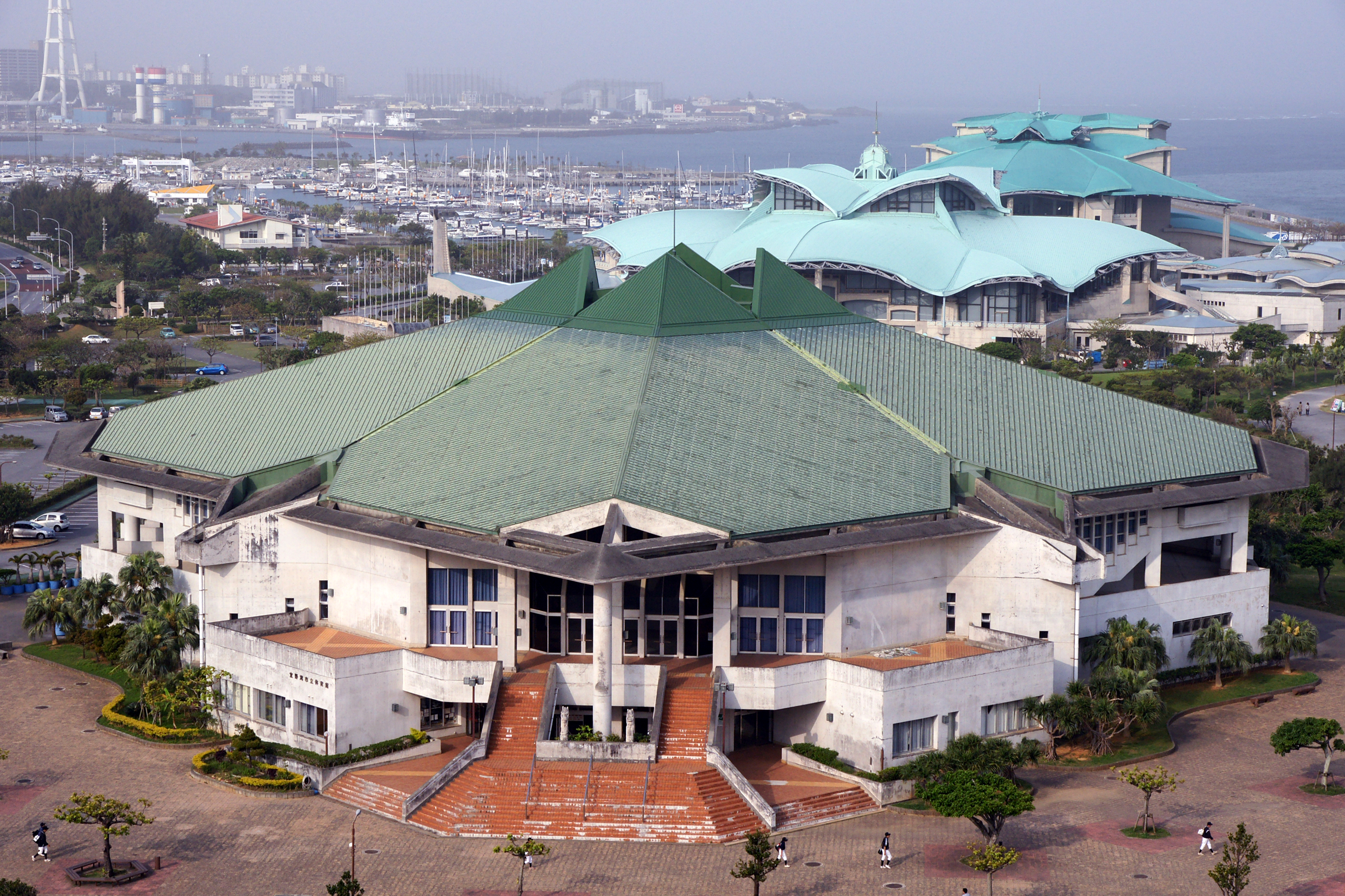 Ginowan City Gymnasium in Ginowan, Okinawa prefecture, Japan.